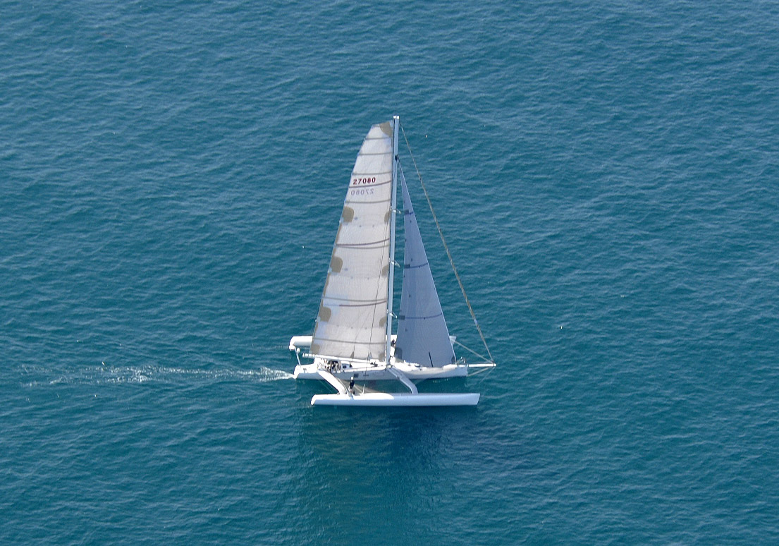 LoeReal 60 foot Waterworld trimaran photo D Ramey Logan